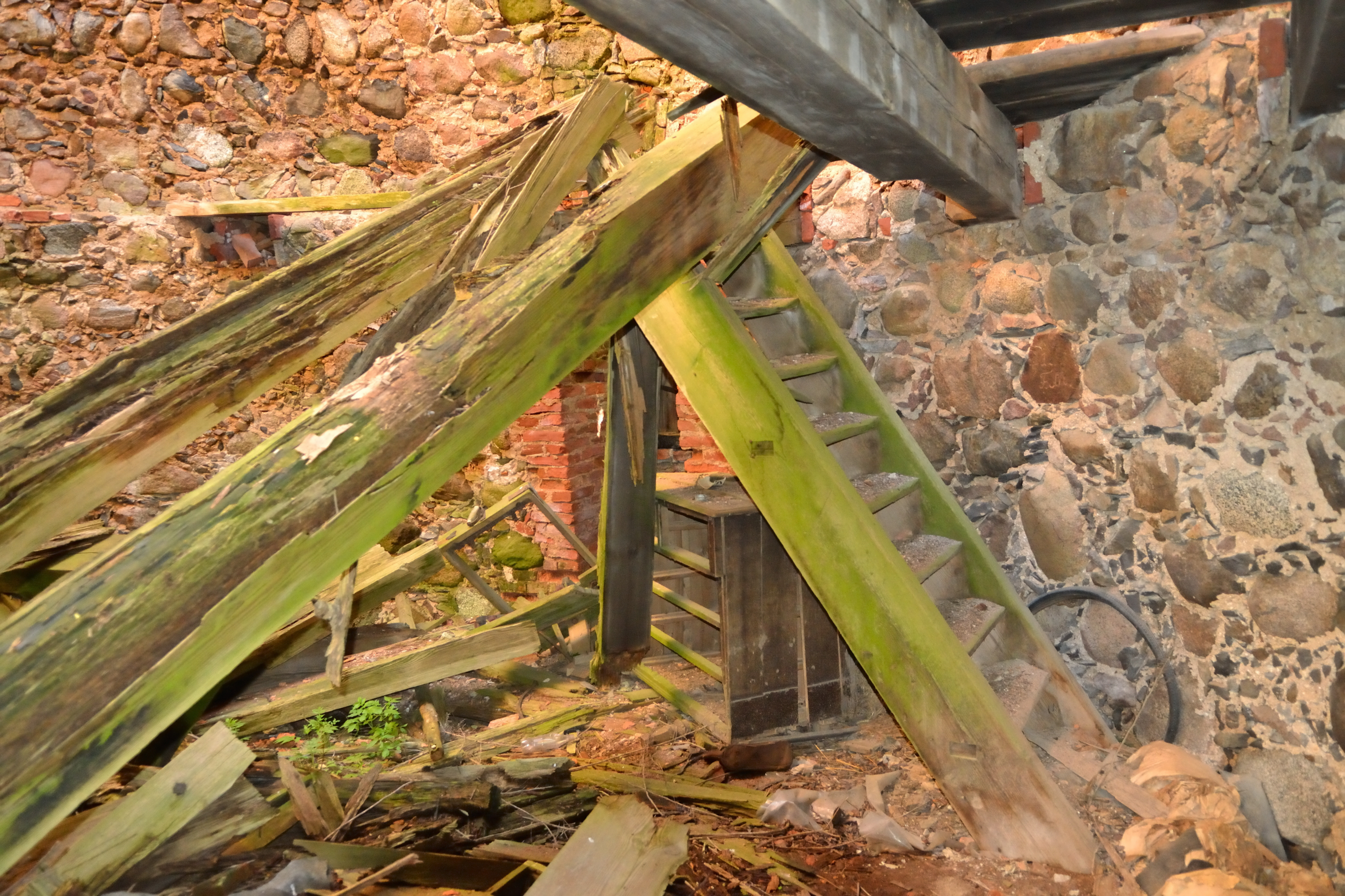 Saare manor windmill ruins